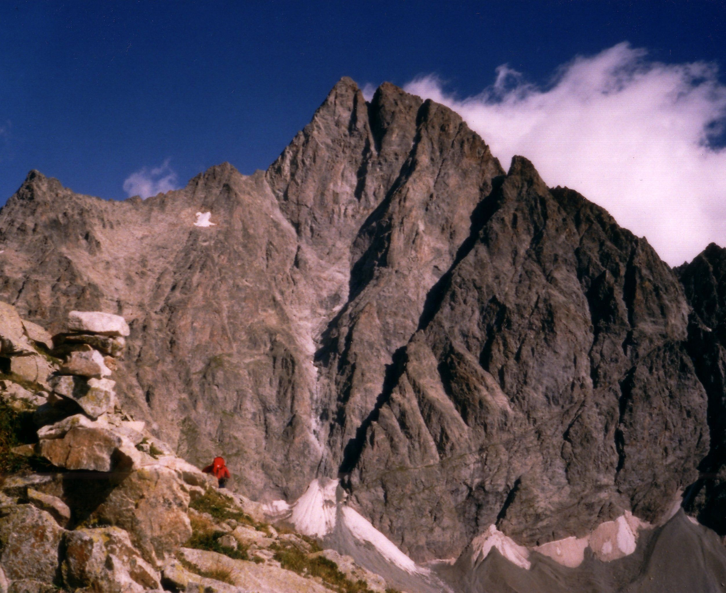 Olan, North-West face, a Valgaudemar summit, Alps, France Photo prise depuis la pointe du Vallonet [1]